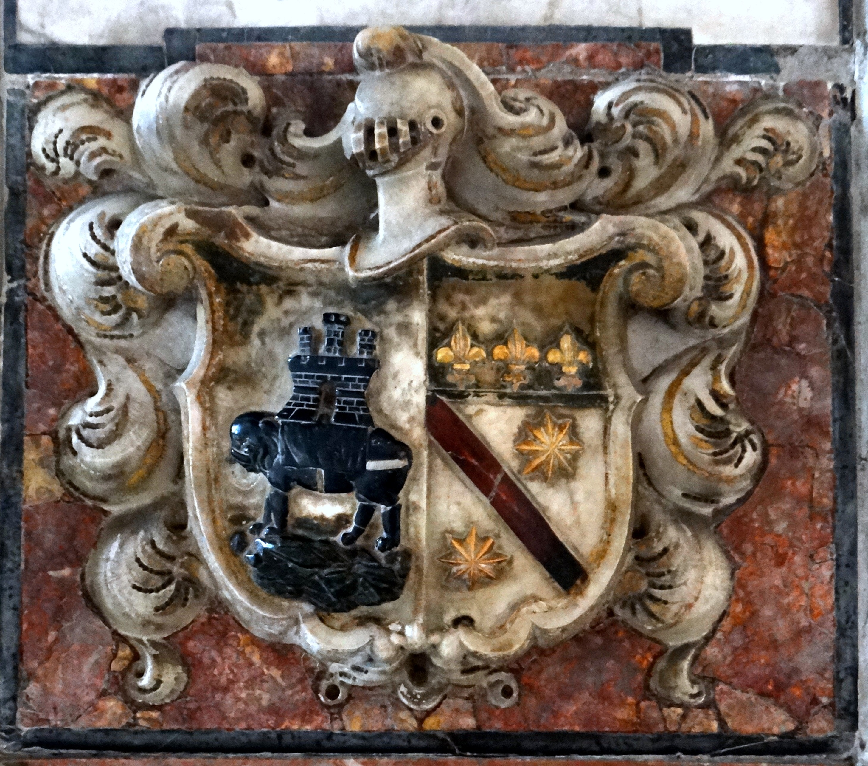 The combined coat-of-arms of Marzio Elefantucci and Anastasia Masci on the monument of their uncle, Count Masci-Ferracuti, the Bishop of Vieste in the Basilica of Santa Maria del Popolo, Rome (post 1613).